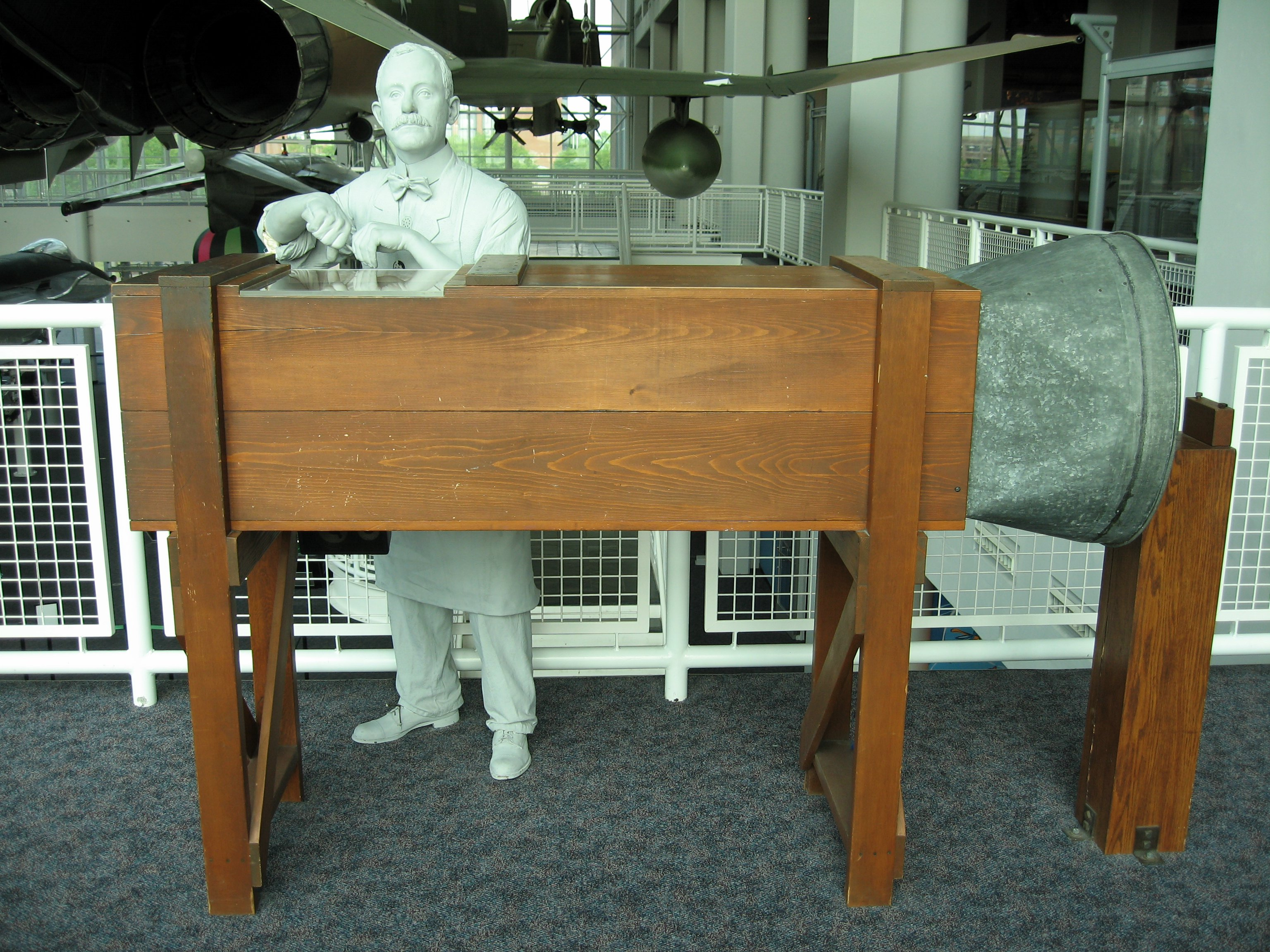 Replica of the Wright Brothers' wind tunnel at the Virginia Air & Space Museum in Hampton, VA. The entry of the tunnel was called the 'goesinta' by the brothers and the exit was dubbed the 'goesouta.'